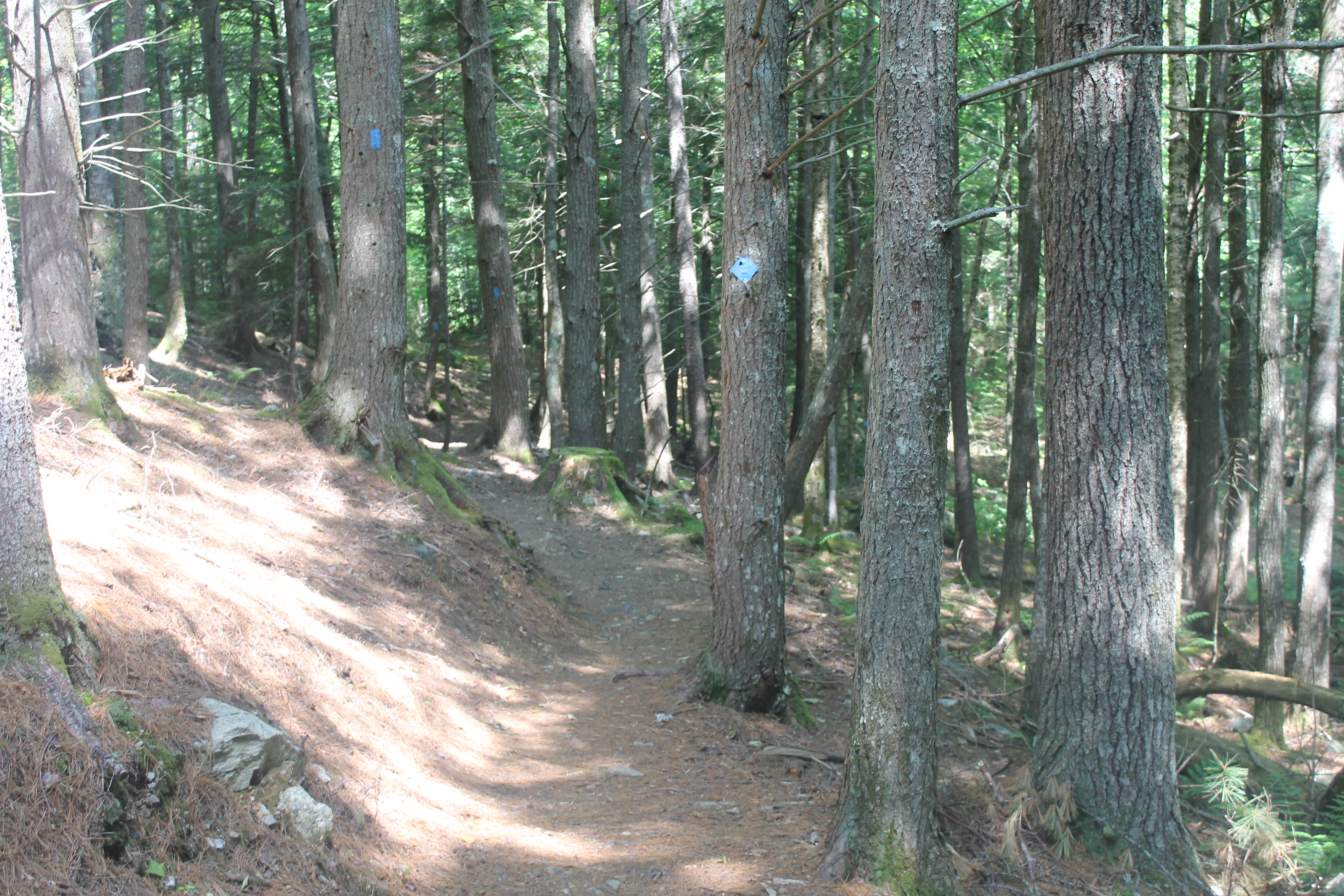 I took photo with Canon camera of Indian Point Preserve Trail in Ellsworth, ME.